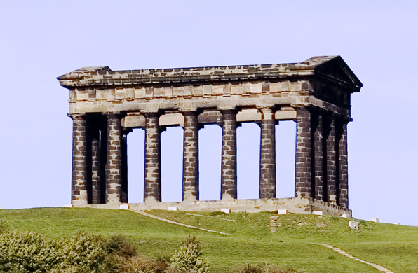 Penshaw Monument in Sunderland, Tyne and Wear. View from Herrington Country Park